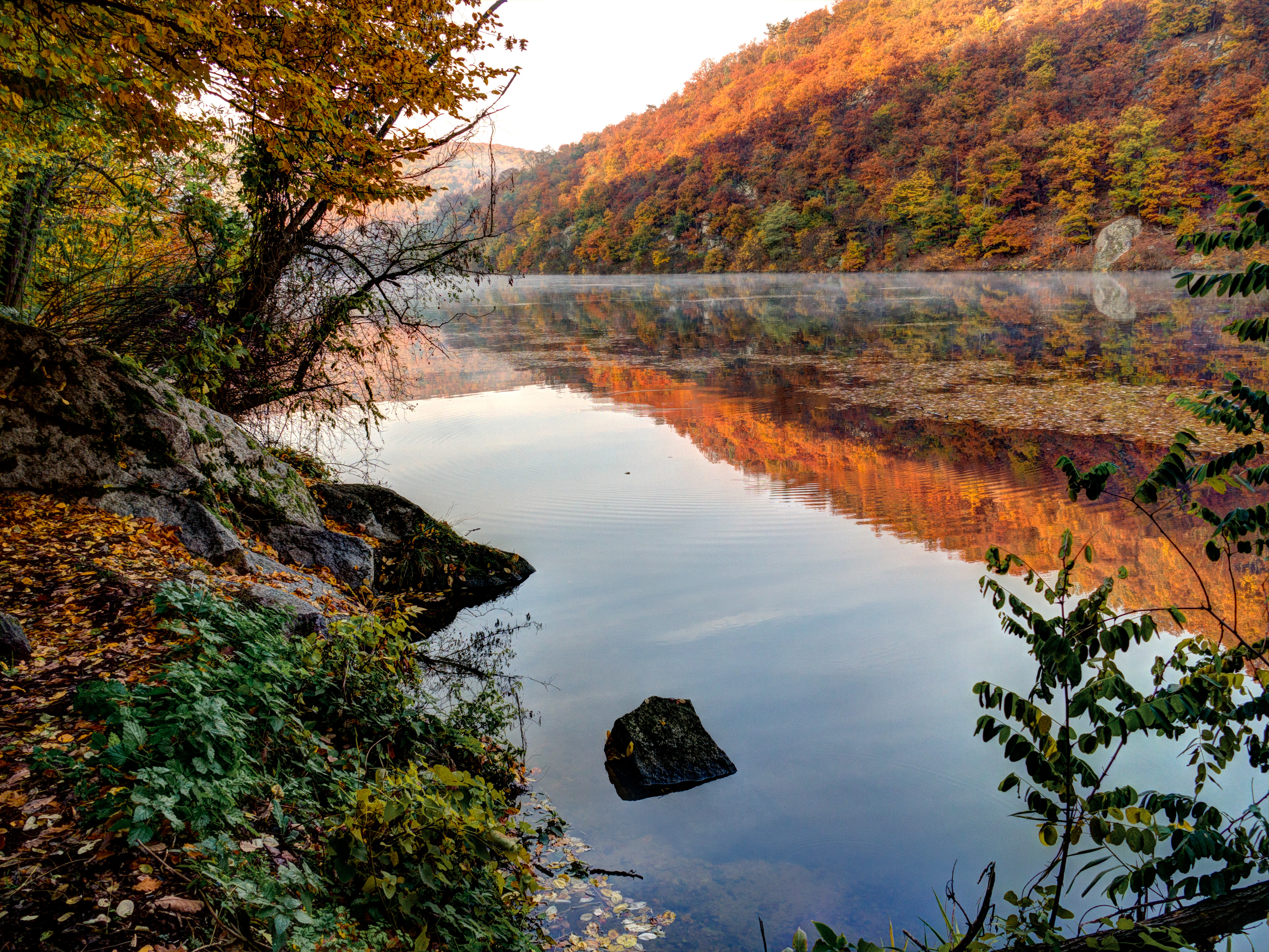 ThePodyjí National Park, a national park in the South Moravian Region of the Czech Republic / EU. Mood in the morning. A light mist over the smooth water surface. The European beech are colored red in October and reflected in the water.